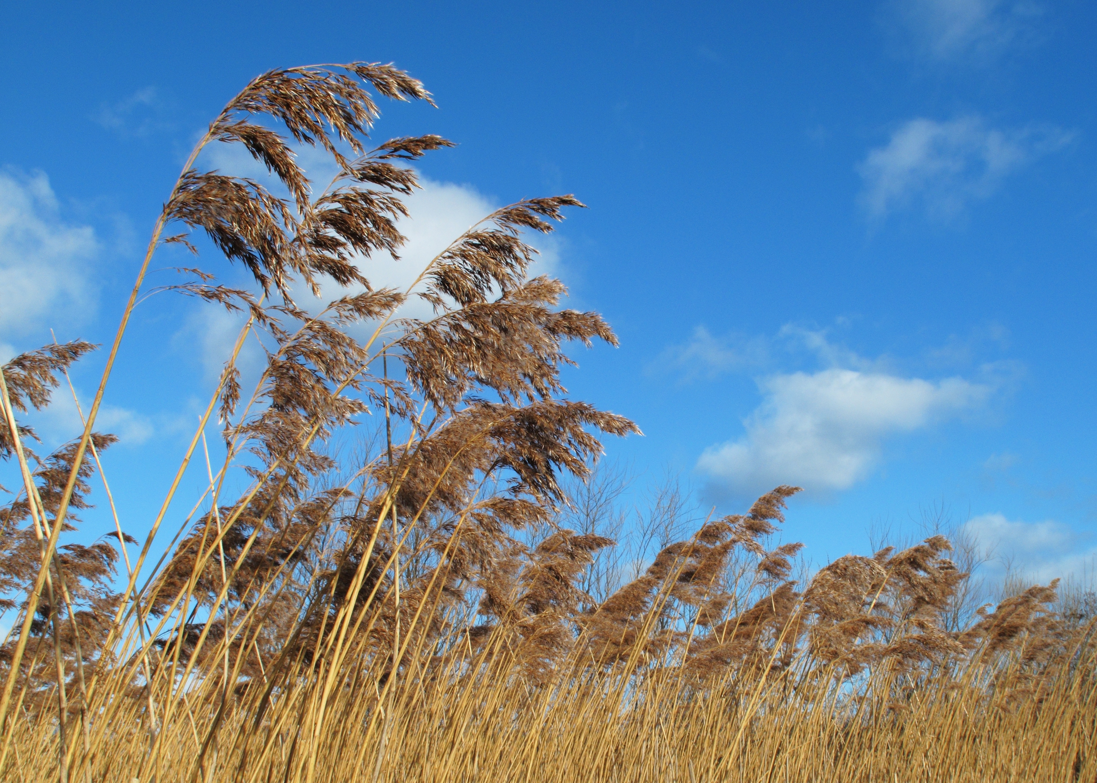 Phragmites australis reedbed in winter, East Boldon, Co. Durham, England.